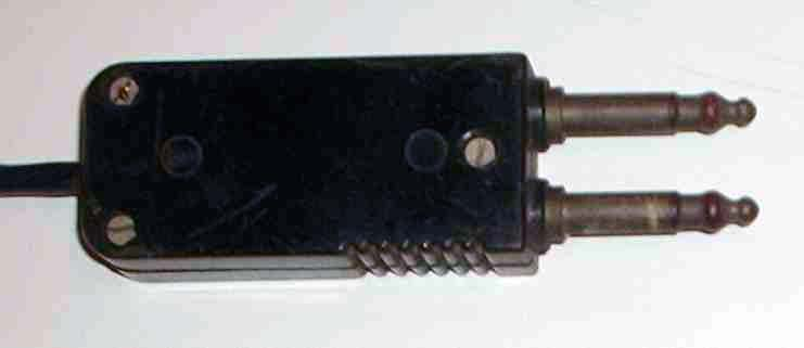 Double jack plug. An obsolete six-conductor plug consisting of two 1/4" TSR jack plugs at 1" spacing, from the personal collection of Andrew Alder. Such plugs were used in telephone exchanges, and this may from the tip profiles have been the intent of this example, but it came from a professional TV studio where it was used to access the patch points in a mono 15 IPS 1/4" tape recorder. Only the tips and bodies (sleeves) of the plugs were used in this application, as the patch points had no ring contacts.